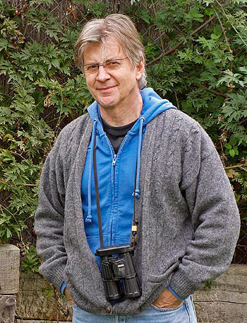 Juan Varela Simó, biologist and artist